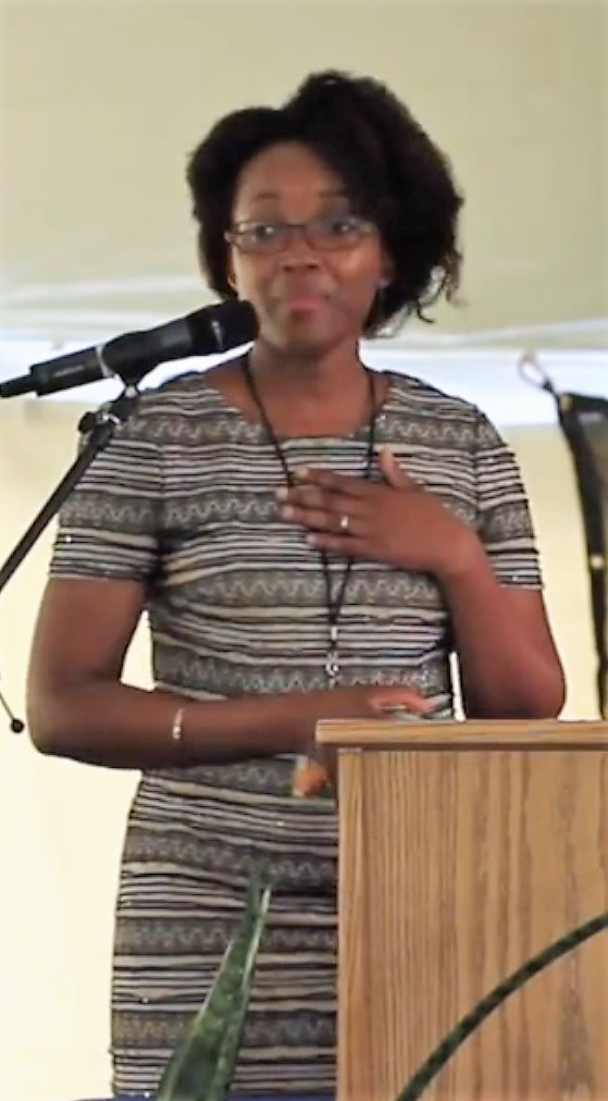 Keynote Address At 2016 Energy Fair by SMIN Power Group LLC President Sandrine Mubenga